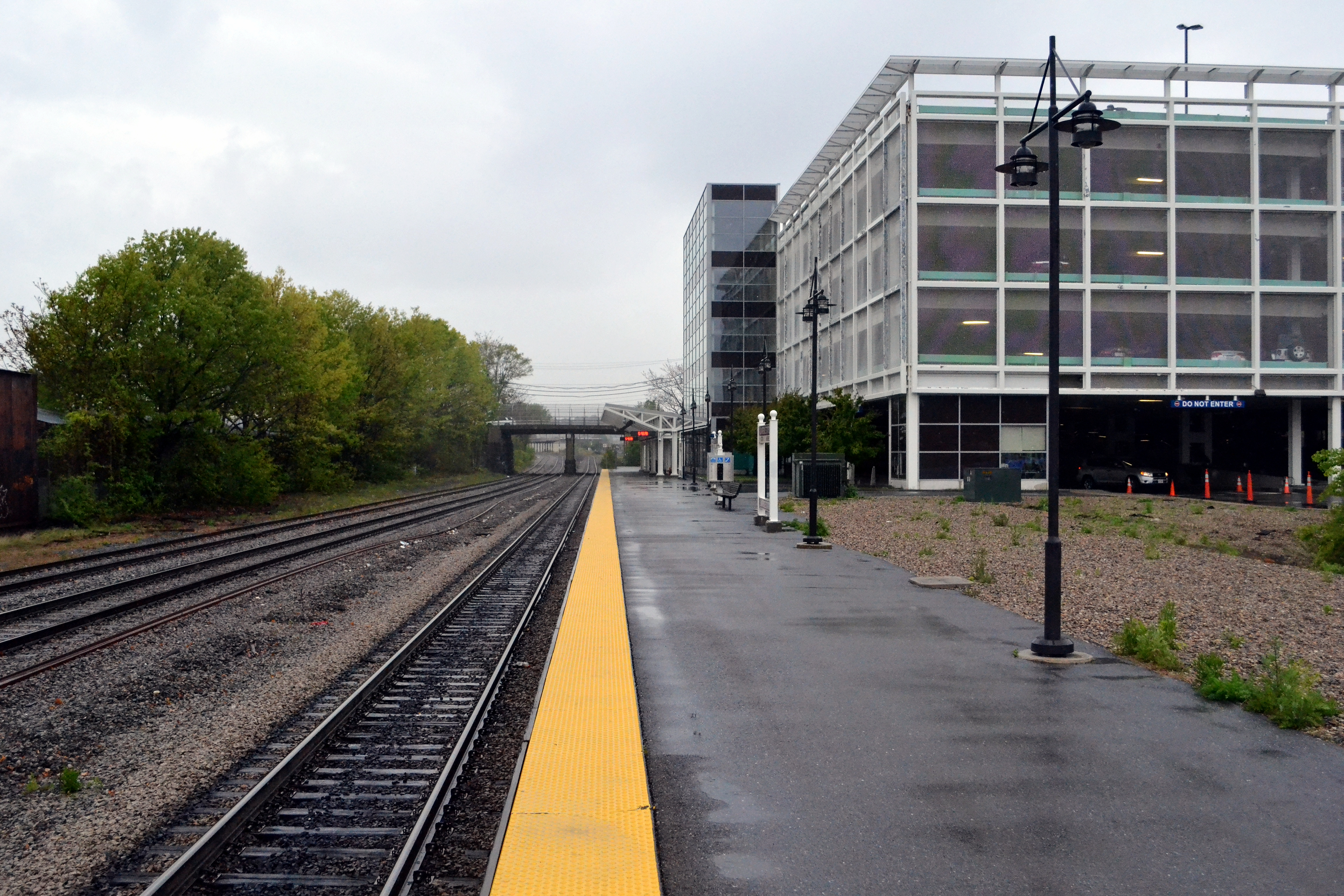 Station platform at the 2005-built Senator Patricia McGovern Transportation Center in Lawrence, Massachusetts. The remnants of the old station are faintly visible in the distance.